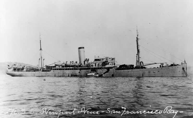 USS Newport News in San Francisco Bay, California, circa 1919. The ship served in the Pacific from August 1919 until she was decommissioned in August 1924. US Navy photo # NH 84673 from the collections of the US Navy History and Heritage Command, courtesy Donald M. McPherson, 1976.